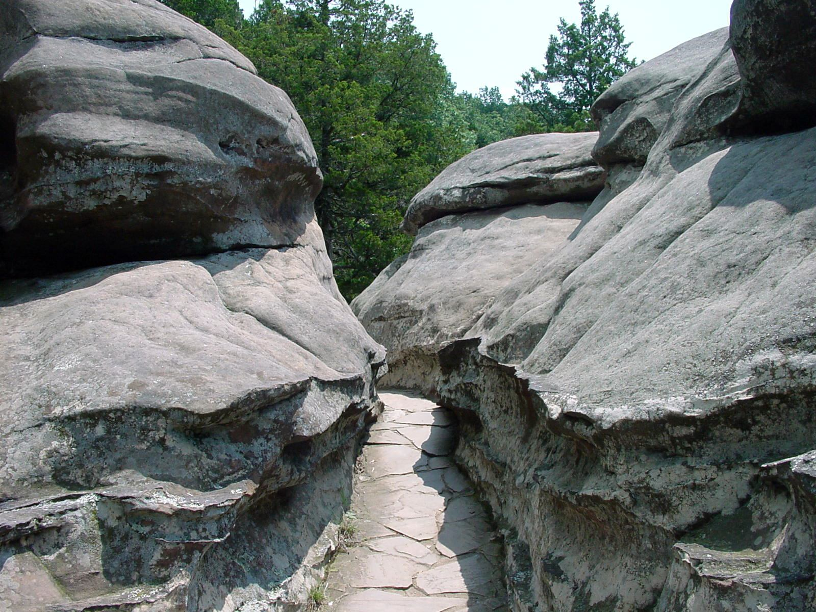 Shawnee National Forest, Garden of the Gods, South Illinois, USA